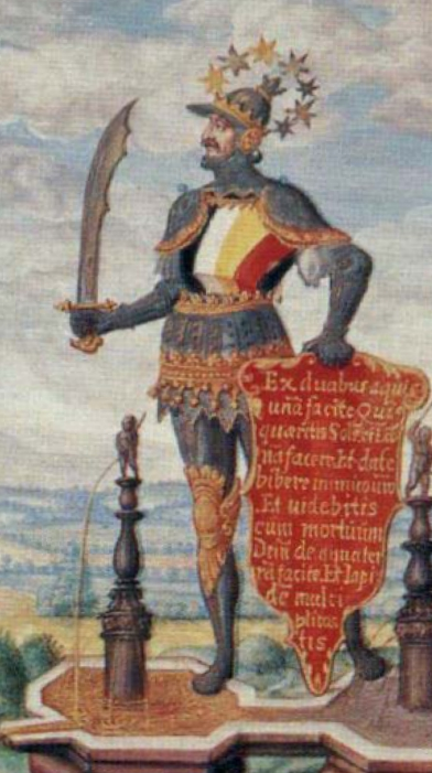 Third plate of Splendor Solis, cropped to show central figure.